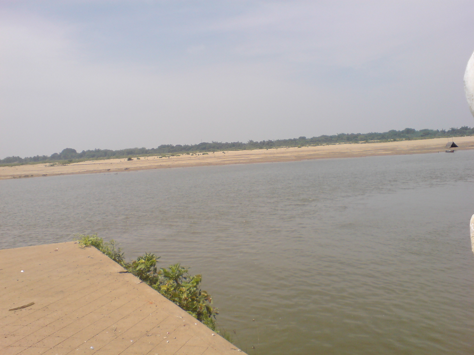 Vadargam Kollidam River